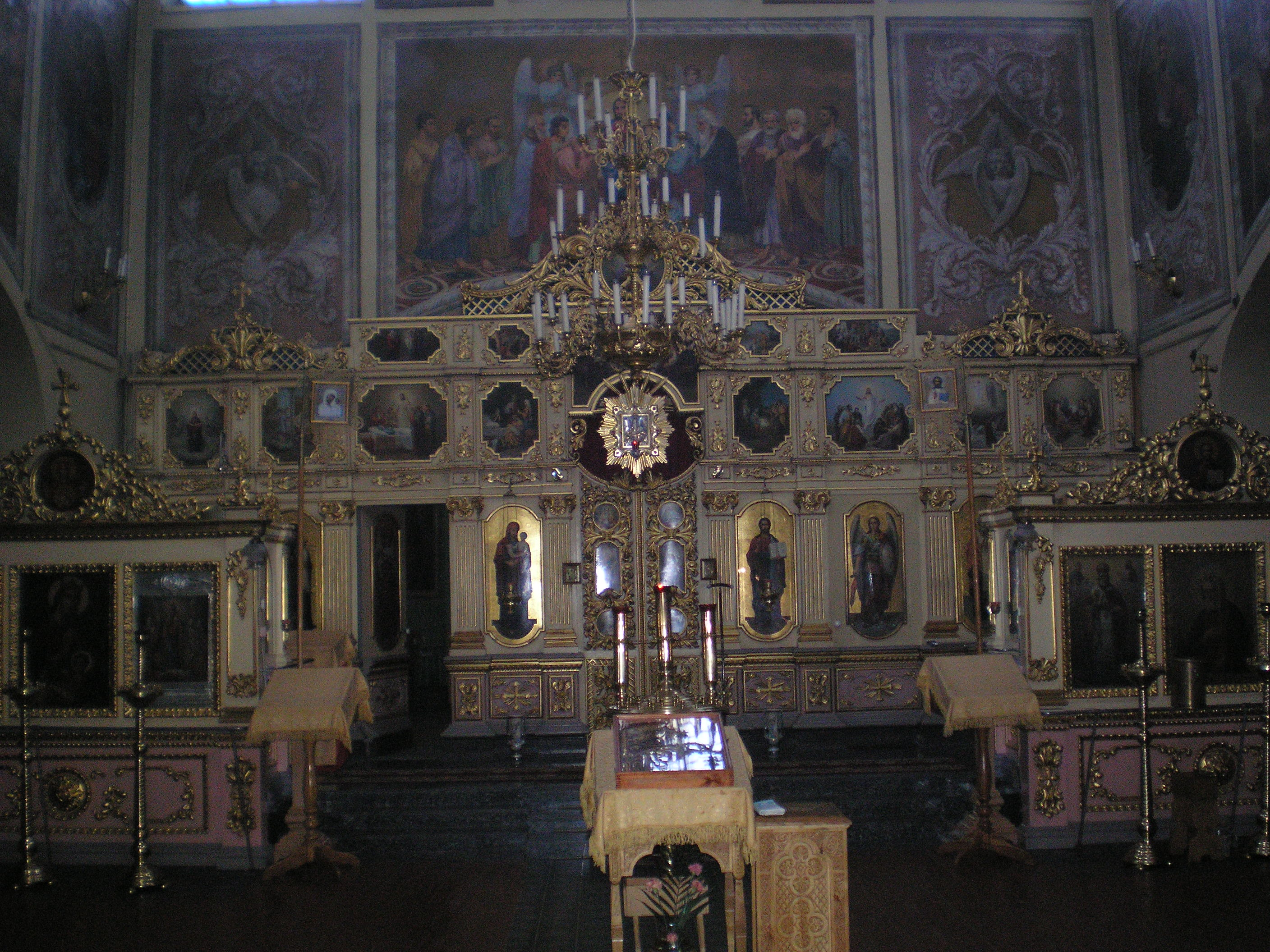 St. Nicolas monastery (Gomel)